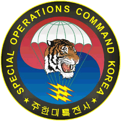 Special Operations Command Korea emblem